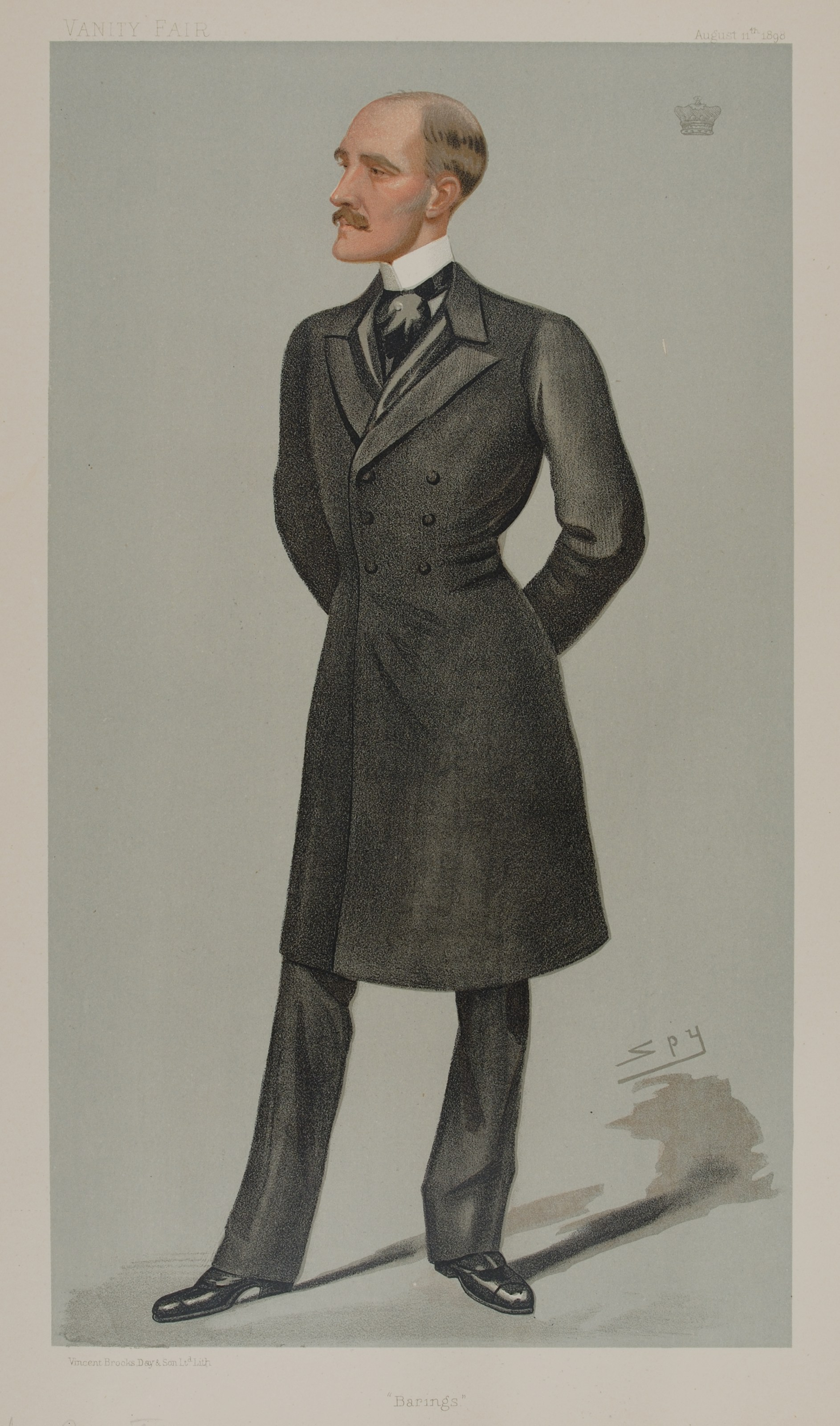 Statesmen No. 698: Caricature of Lord Revelstoke. Caption read "Barings".